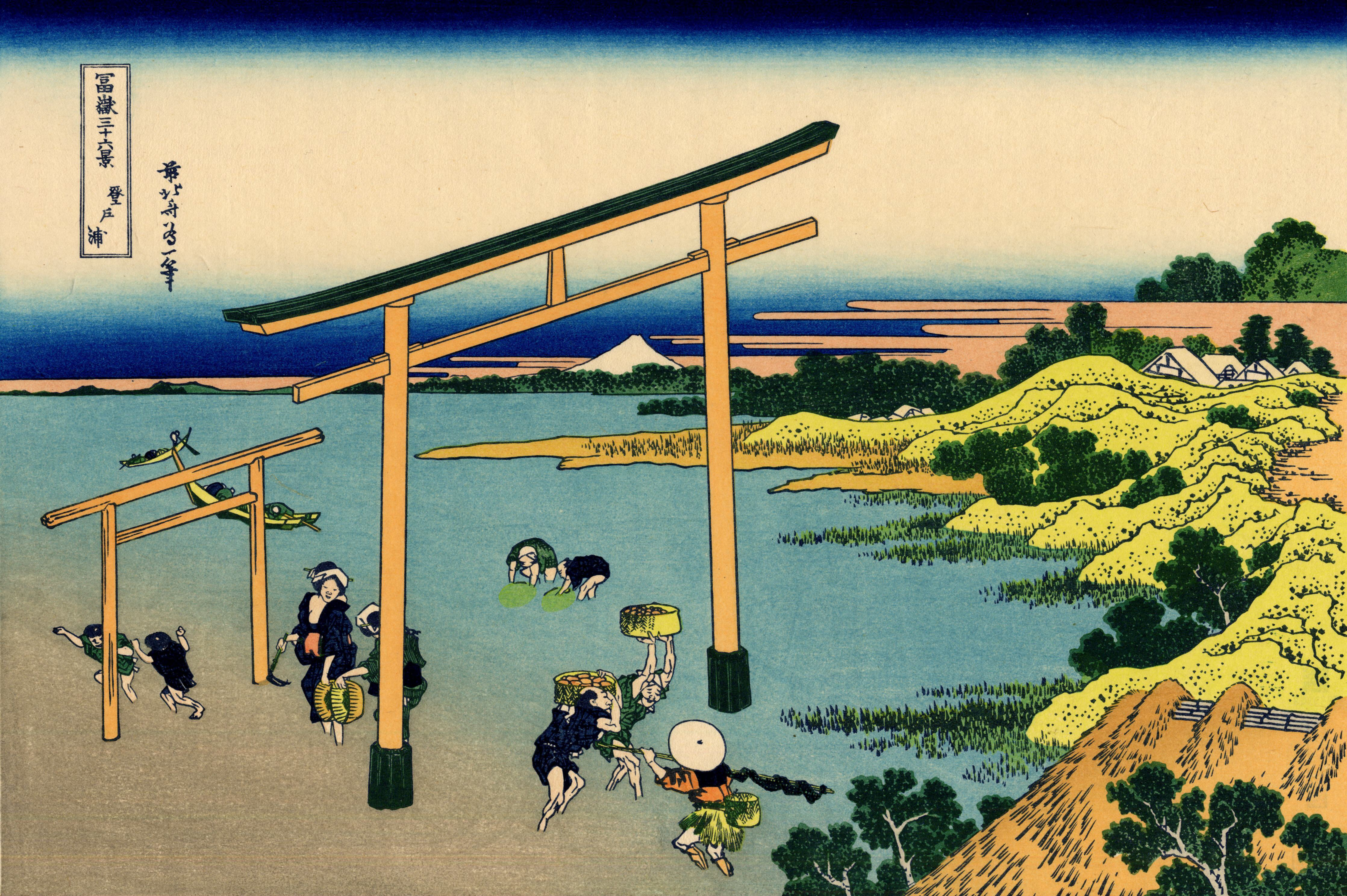 Part of the series Thirty-six Views of Mount Fuji, no. 18.